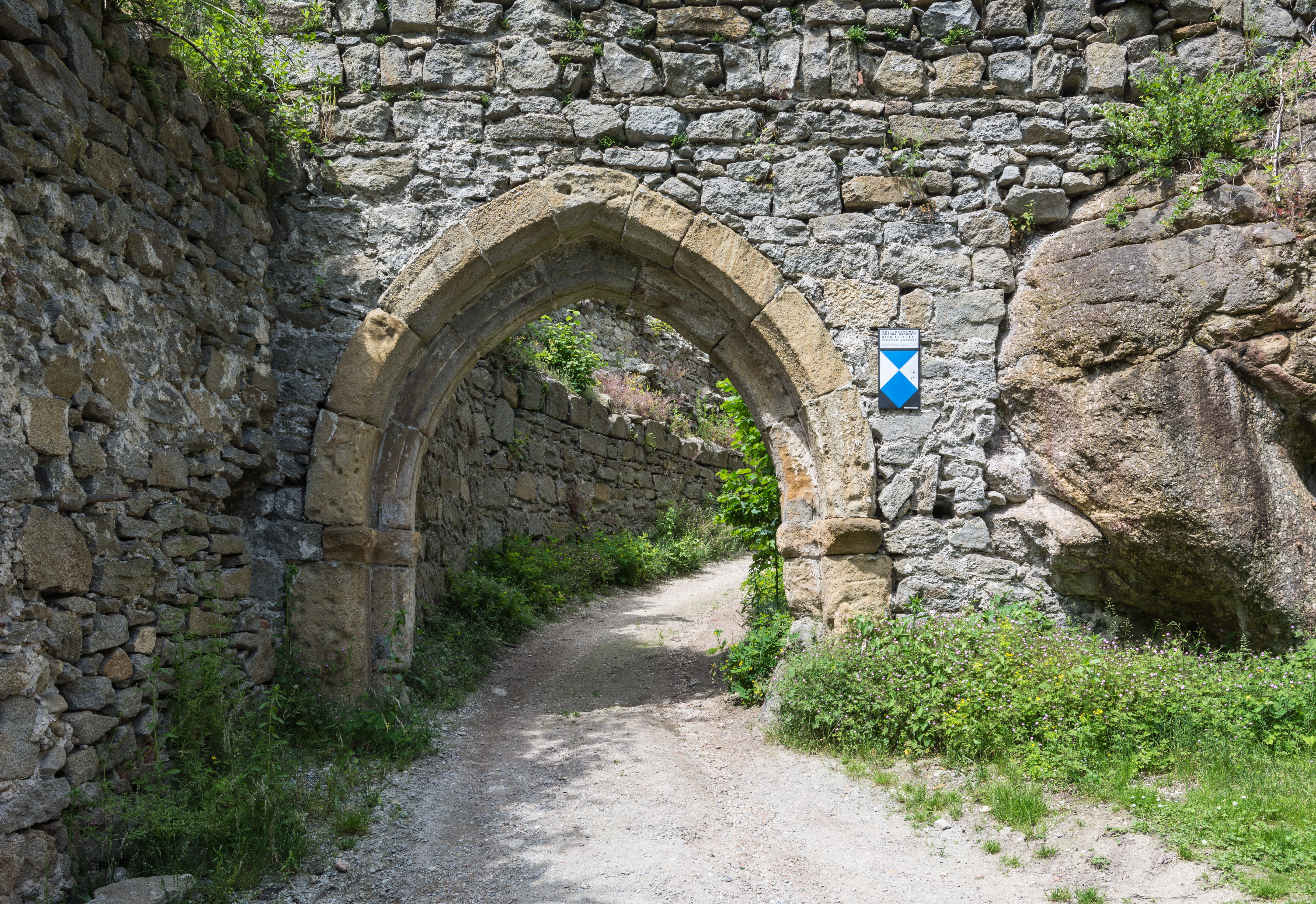 In front of the second portal of Ruin of castle Spielberg in Langenstein, district of Perg, Upper Austria there is the inner bailey of the former castle.